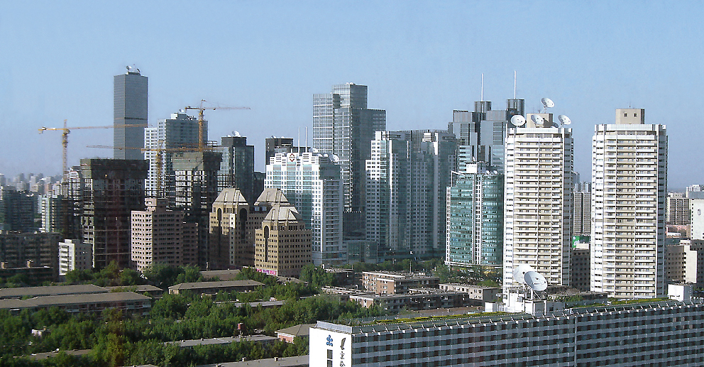 Beijing CBD (Commercial Business District) area, by 39degN.